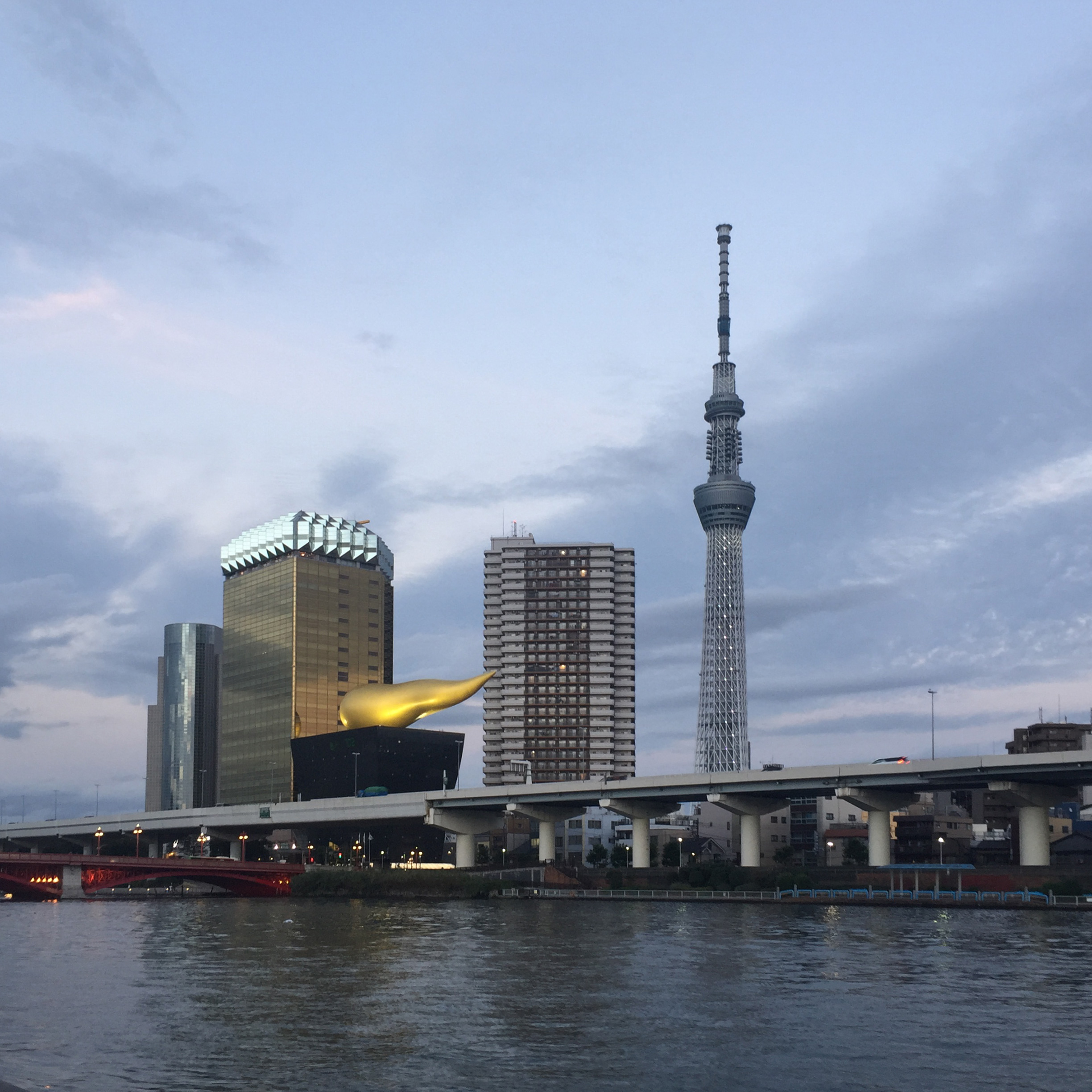 view from the riverside near KOMAGA-BASHI Bridge of SUMIDA River